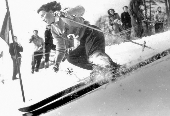 Erika Mahringer, first woman using the Cellulix ski base, Ski World Championships St. Moritz 1948